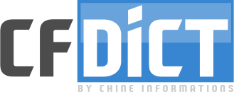 Nouveau logo officiel du projet CFDICT